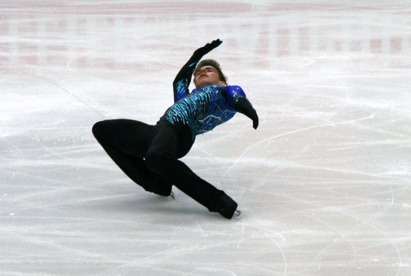 Sarkis Hayrapetyan at the 2011 World Figure Skating Championships. (cantilever)